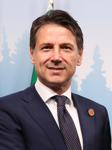 Prime Minister of Japan Shinzō Abe and Prime Minister of Italy Giuseppe Conte at the 44th G7 summit.